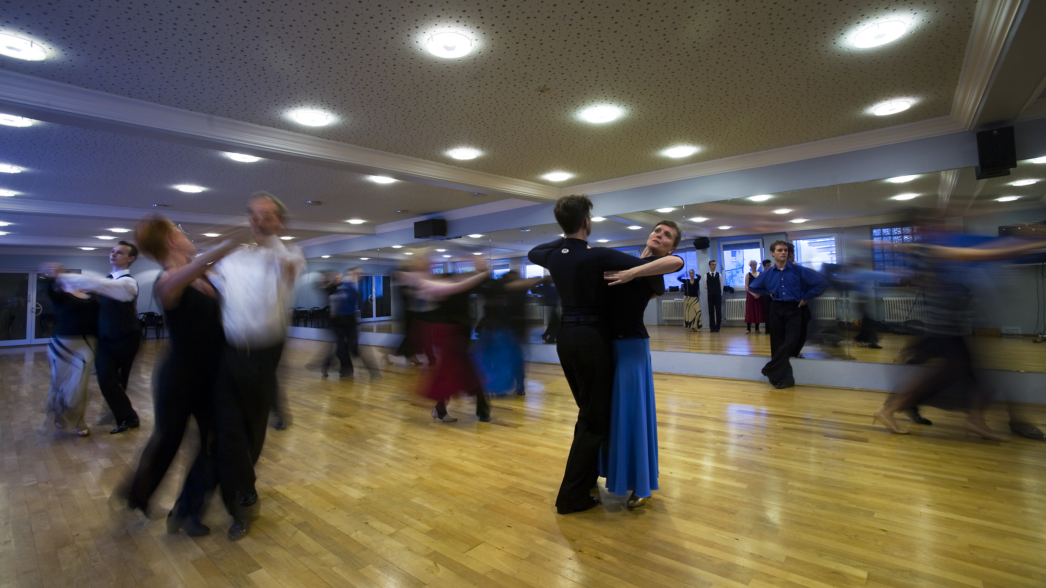 A Ballroom dance school. Munich, Germany